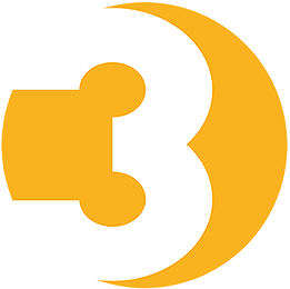 logo for TV3 in Norway